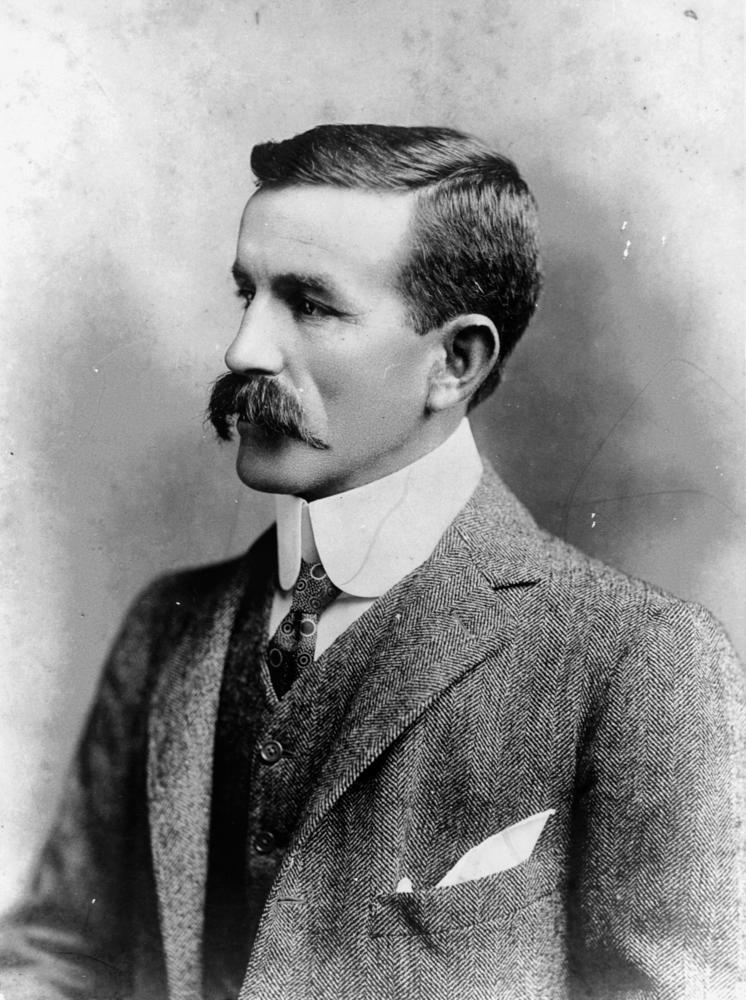 H. J. Hyne (1867-1936) Mr. H. J. Hyne wearing a tweed jacket and waistcoat. He was Mayor of Maryborough from 1913-1918 and owned the Ayrshire cattle stud, Coolgregh.